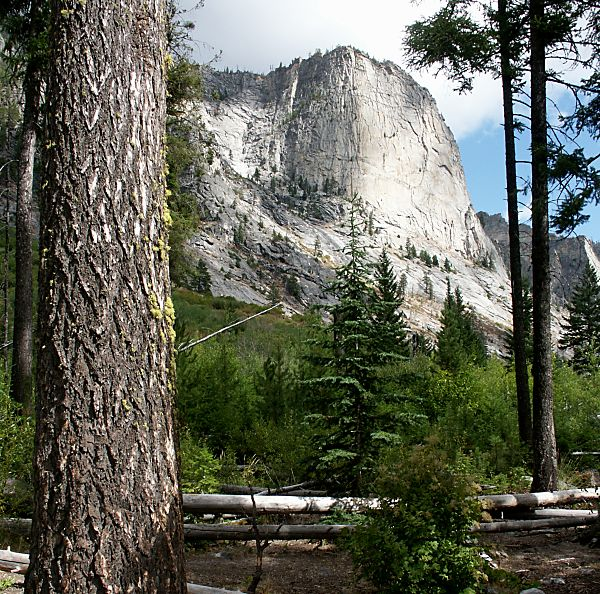 Mouth of Blodgett Canyon — in the Bitterroot Mountains and Bitterroot National Forest, western Montana. Looking east towards the canyon mouth from Bitterroot Valley.